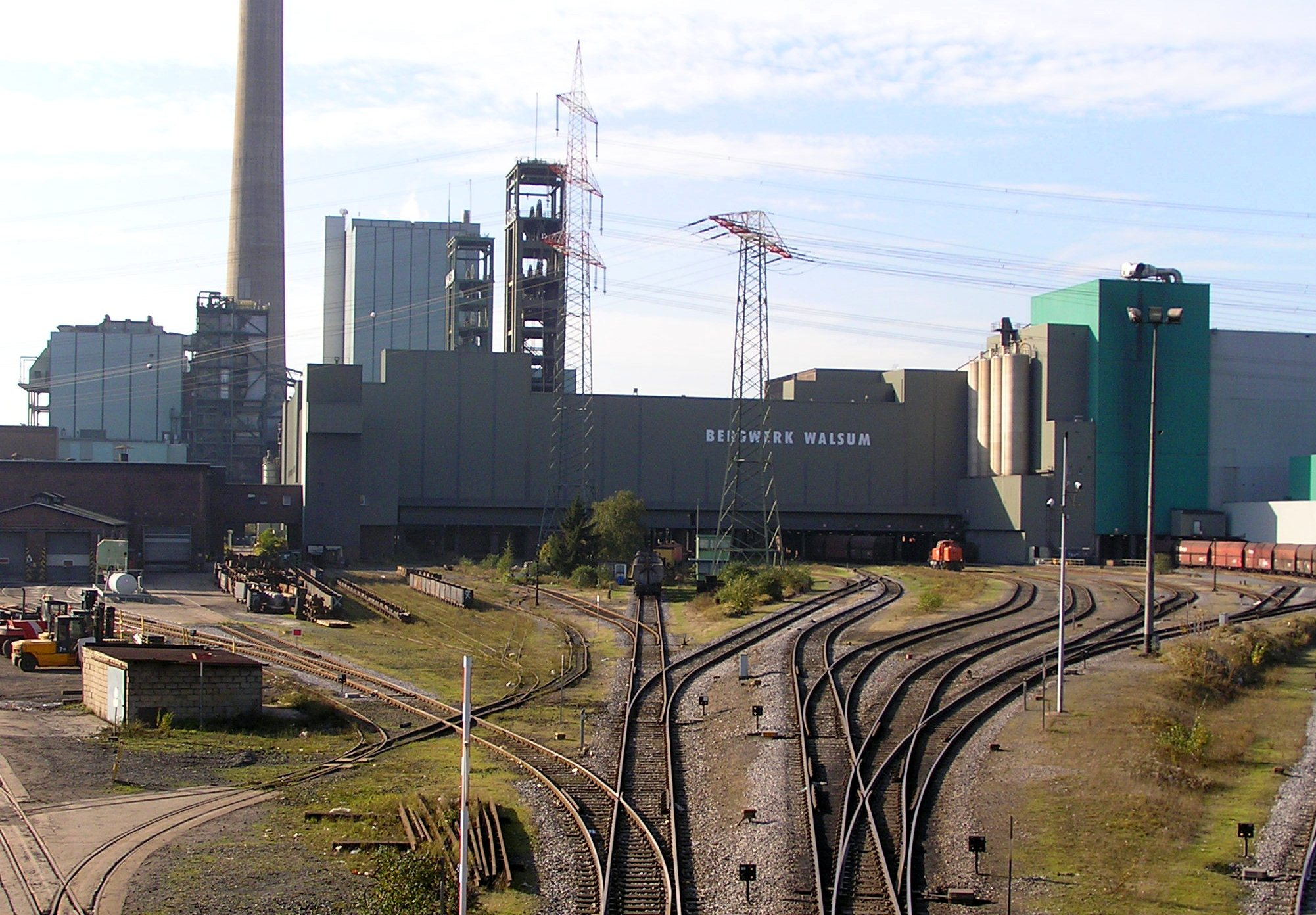 View from east (Römerstraße) on coal mine "Walsum", Duisburg